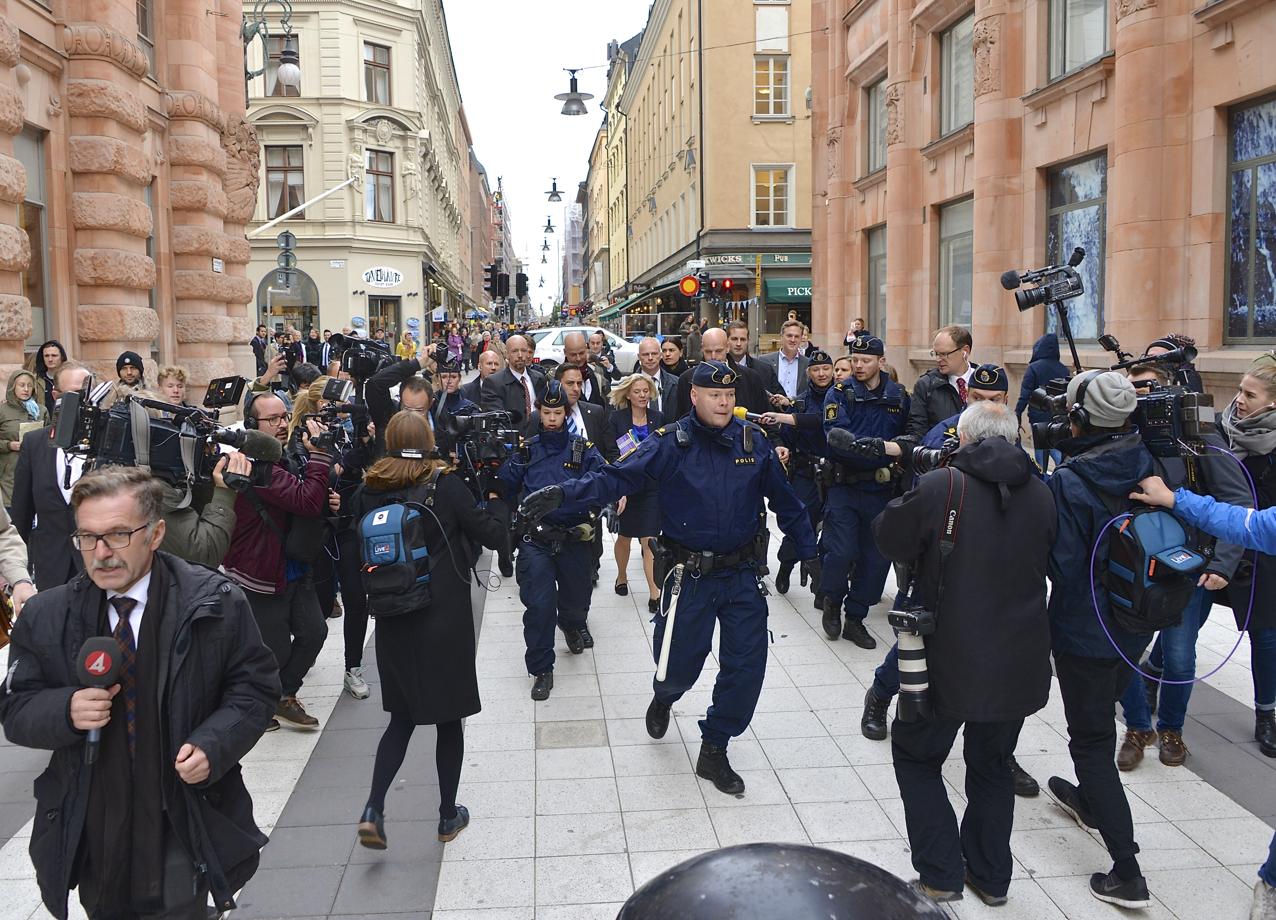 Swedish Minister for Finance Magdalena Andersson, with the 2015 budget proposition, during the walk to Parliament, October 23th, 2014.